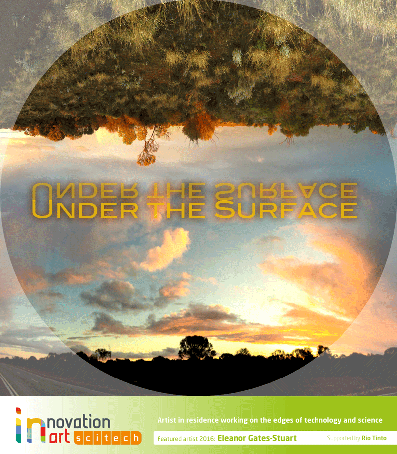 Western Australia Landscape by Eleanor Gates-Stuart. Used for her poster for 'Under the Surface' project.